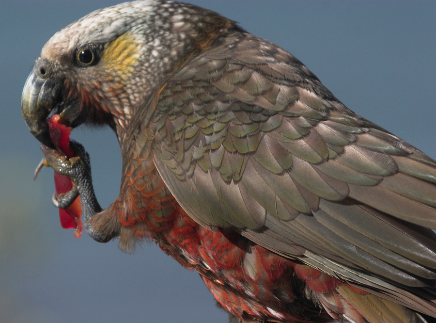 Nestor meridionalis meridionalis, South Island Kākā, on Stewart Island, New Zealand